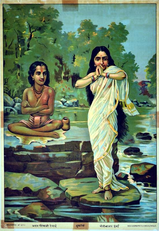 Shuk Rambha Shuk Rambha Early Lithograph by Ravi Varma Press 14 x 10 inches Code No: 10287 Price on Request 0 View to Scale Overview Specifications Contact Us Early Lithograph by Ravi Varma Press Shuk Rambha 14 x 10 inches | 35.5 x 25.4 cms